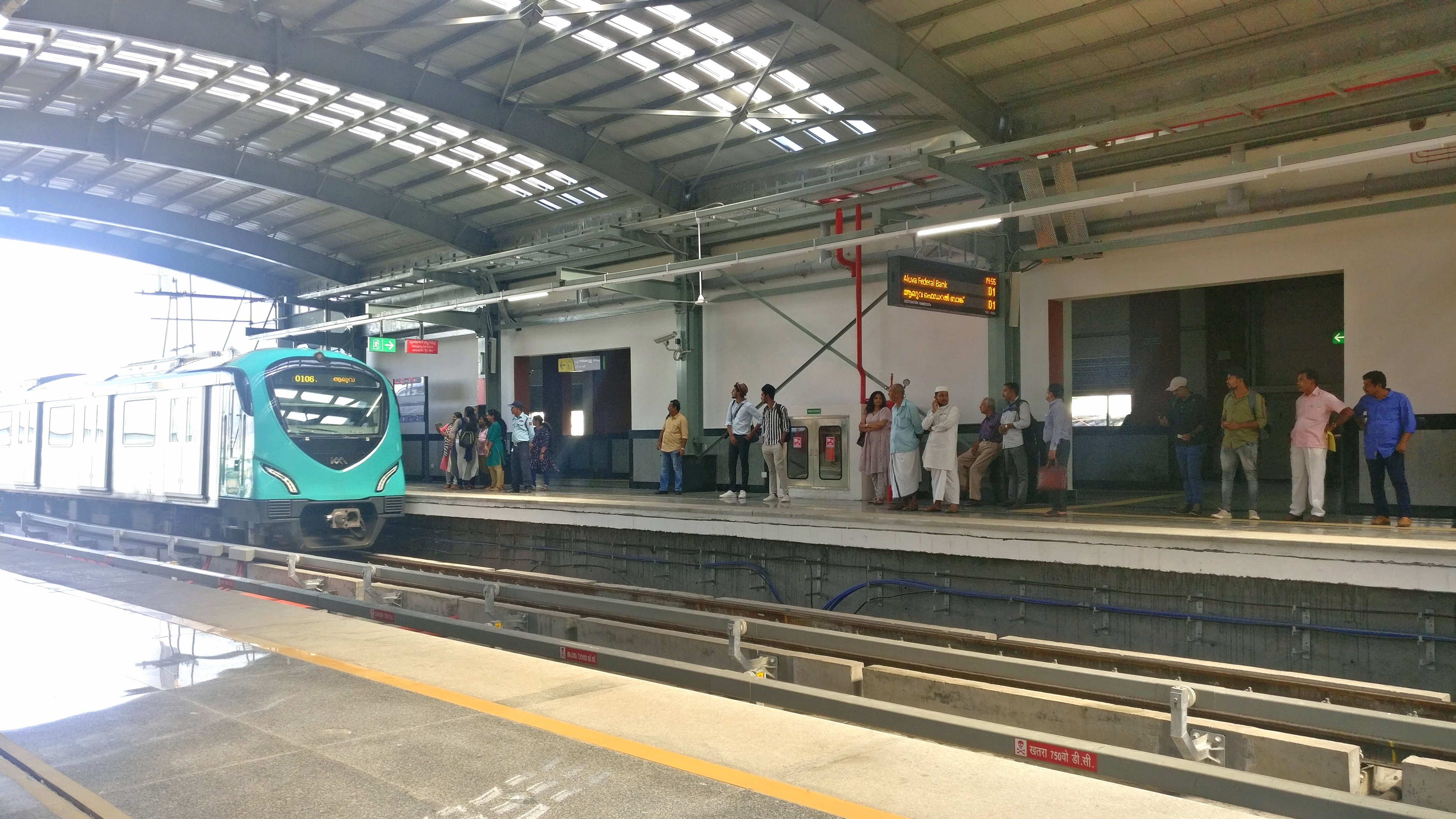 A Kochi Metro train towards Aluva at Ernakulam South station